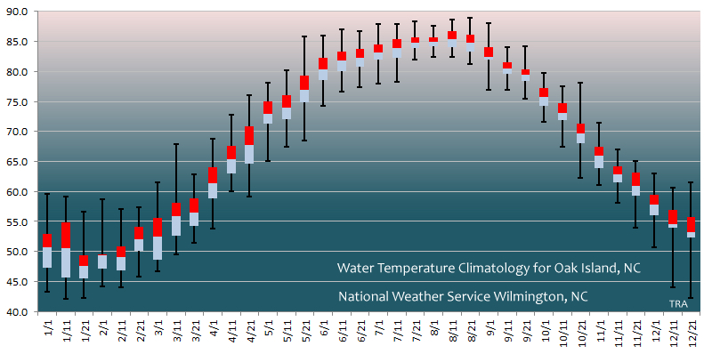 Chart showing twelve month average range of water temperatures